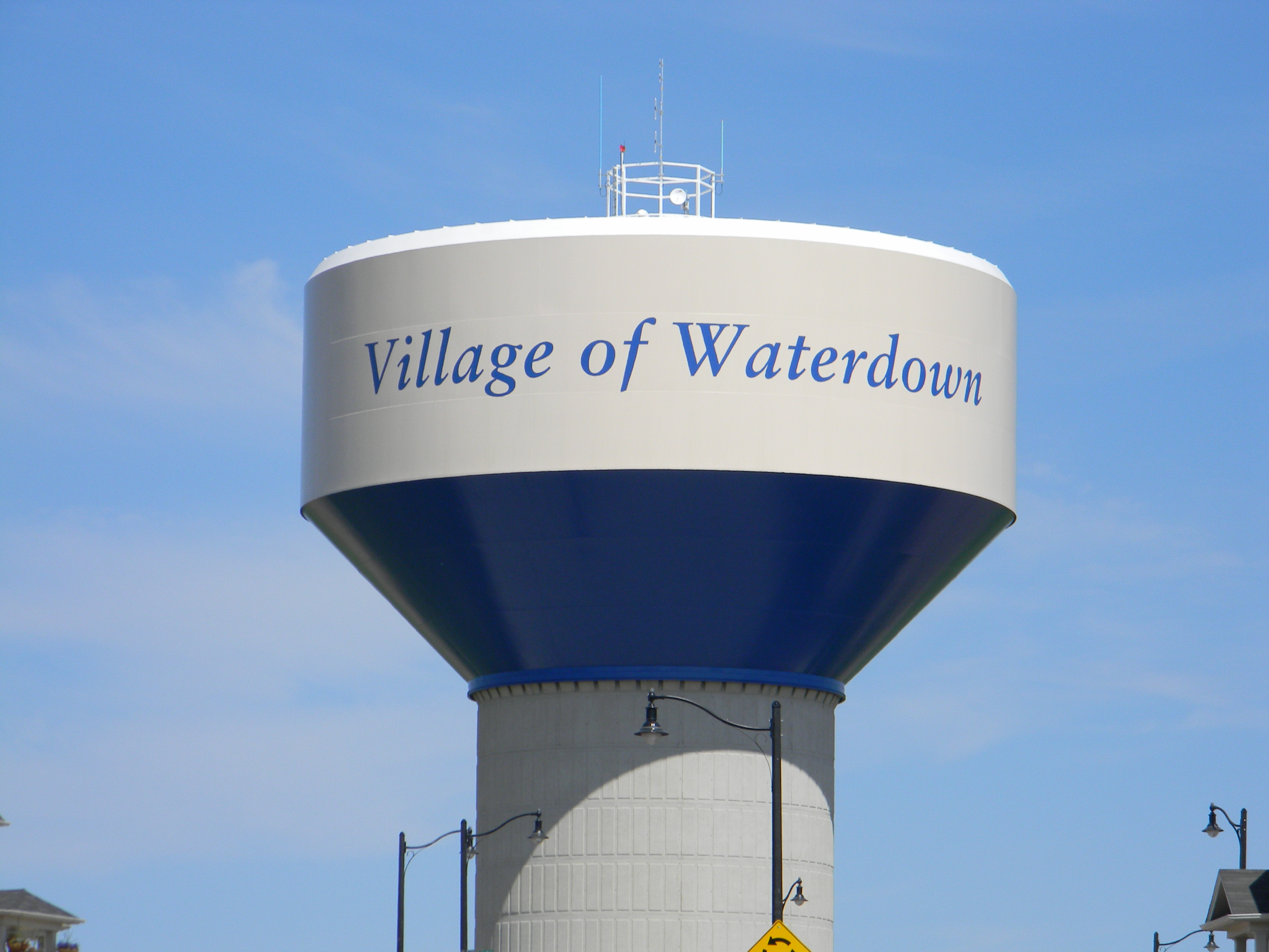 Watertower in Waterdown, Ontario, Canada